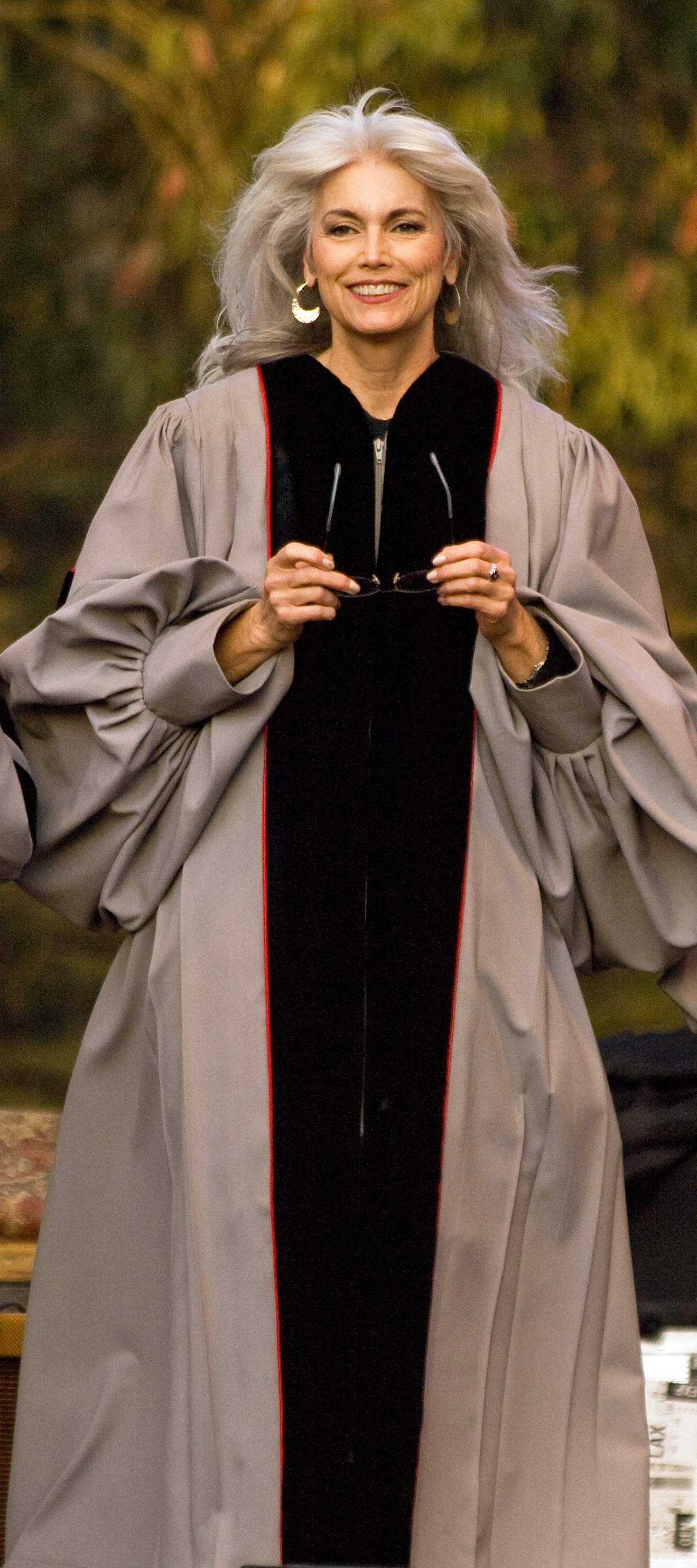 Hardly Strictly Bluegrass Festival, in San Francisco 2009